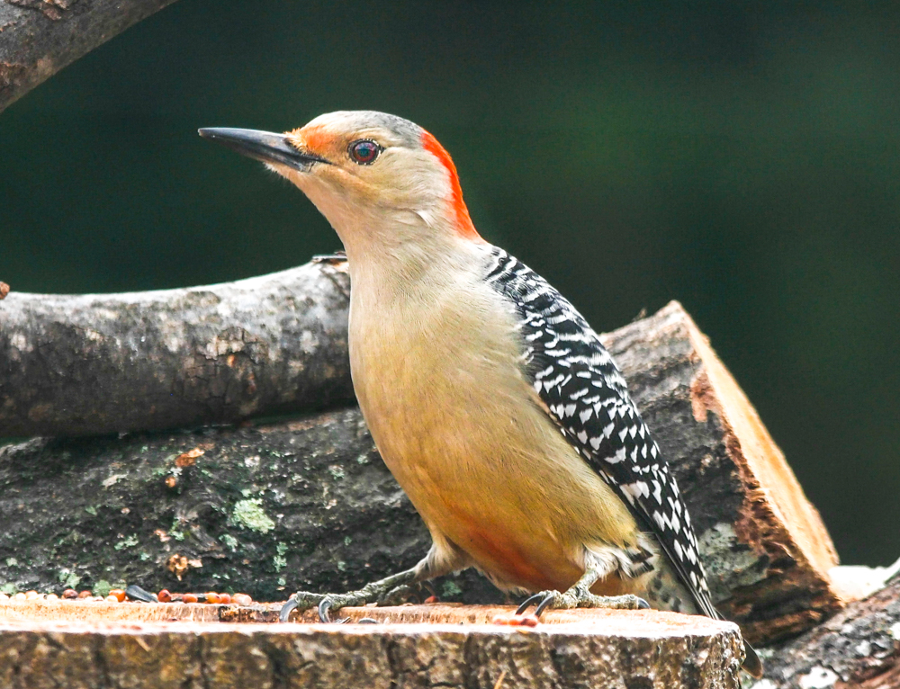 Female Red Bellied Wood Pecker